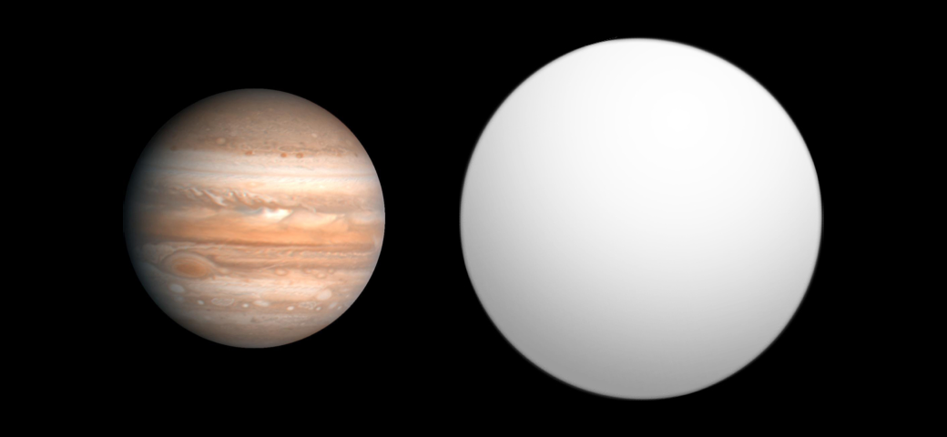 Comparison of best-fit size of the exoplanet CoRoT-5 b with the Solar System planet Jupiter, as reported in the Extrasolar Planets Encyclopaedia[1] as of 2010-10-03. ↑ Extrasolar Planets Encyclopaedia (2010-09-30). Retrieved on 2010-10-03.